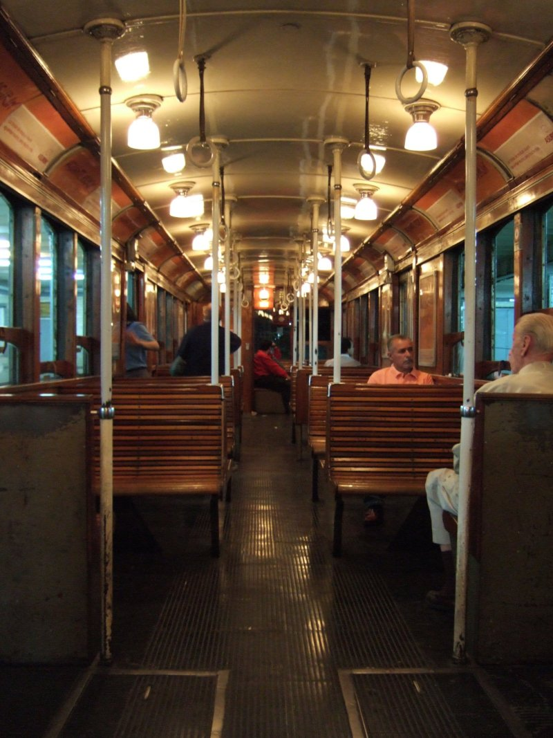 Interior of a Subte train (Subway train) of the Line "A" in Buenos Aires, Argentina.